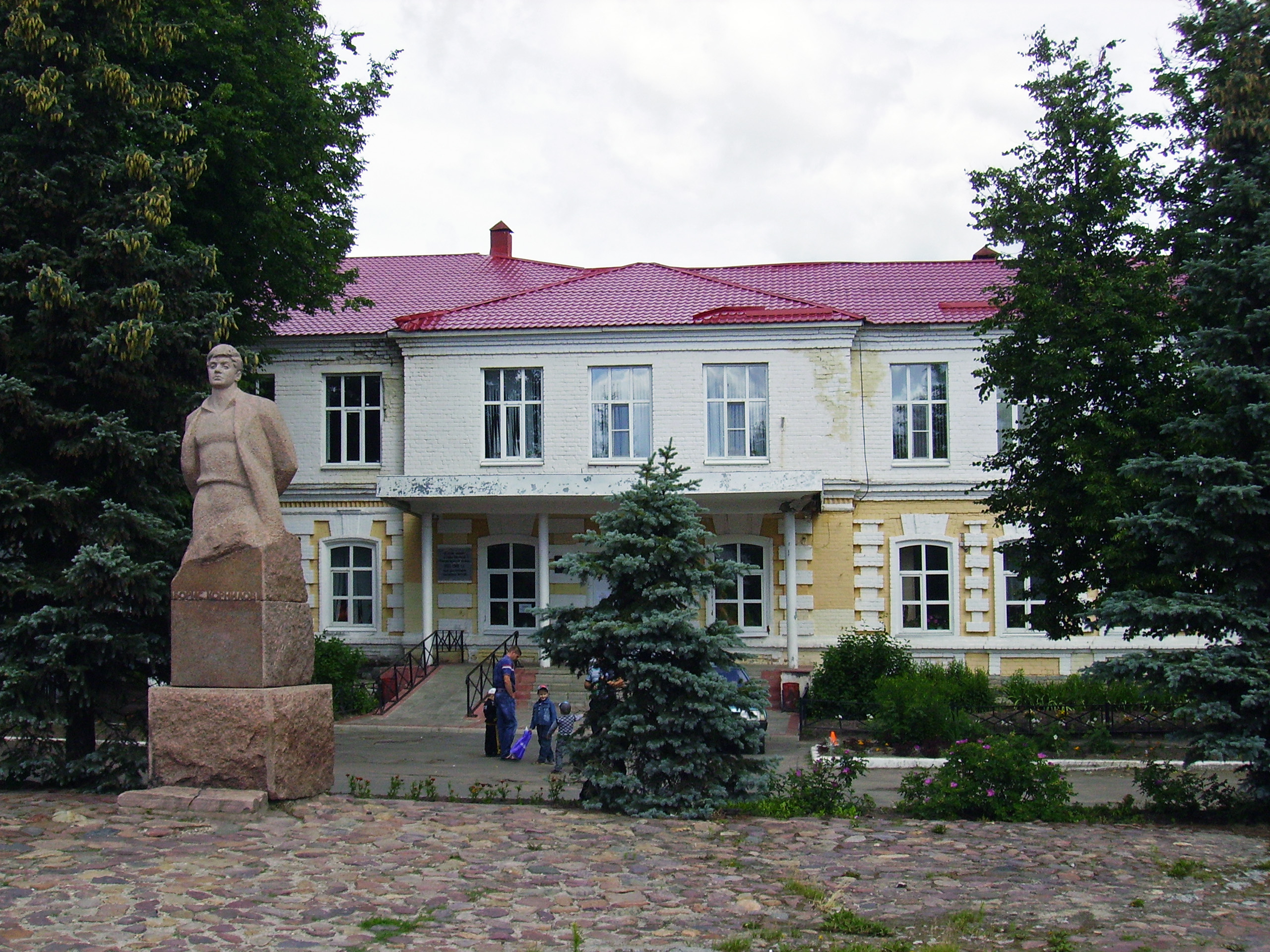 Semyonov. Monument to Russian poet Boris Kornilov near School.